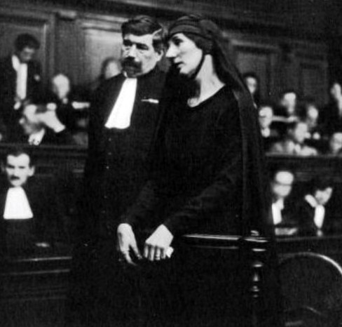 Mrs Nozière on the witness stand in 1934 with her lawyer M. Boitel.